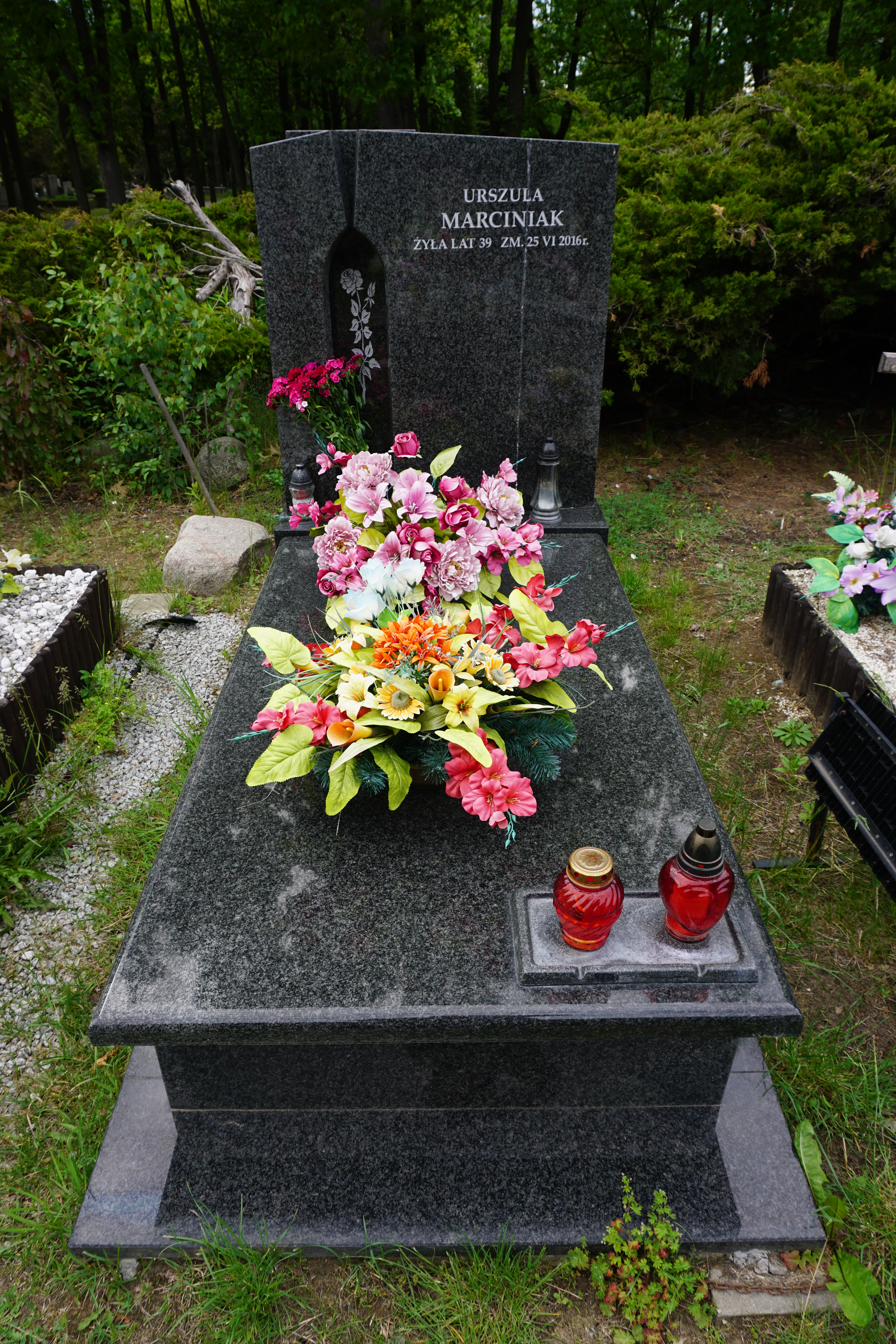 The grave of Urszula Marciniak at the North Municipal Cemetery in Warsaw (section B-XV-1, row 4, grave 19)